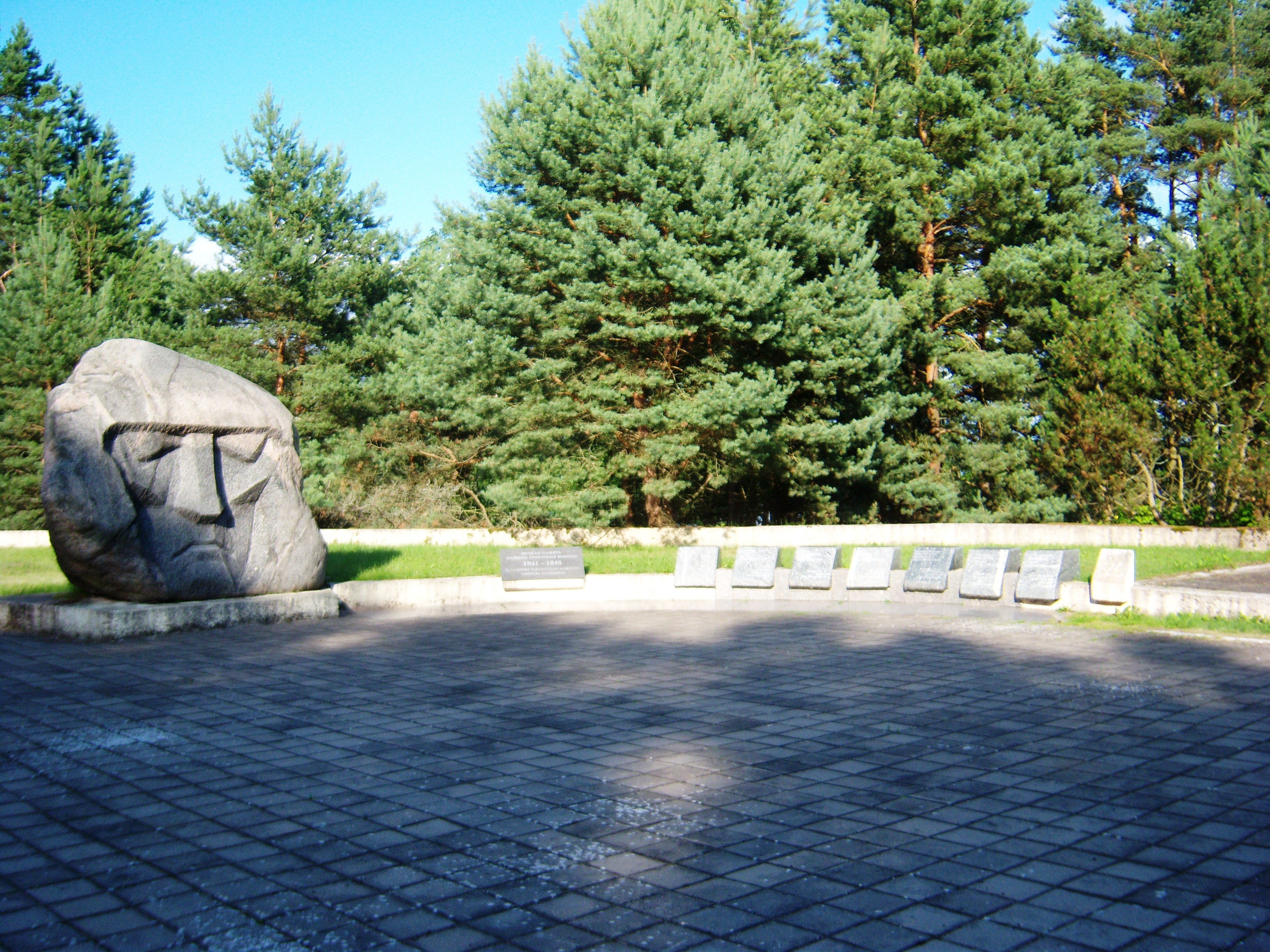 Monument to Soviet soldiers of IIWW, Alksnynė, Curonian spit, Lithuania